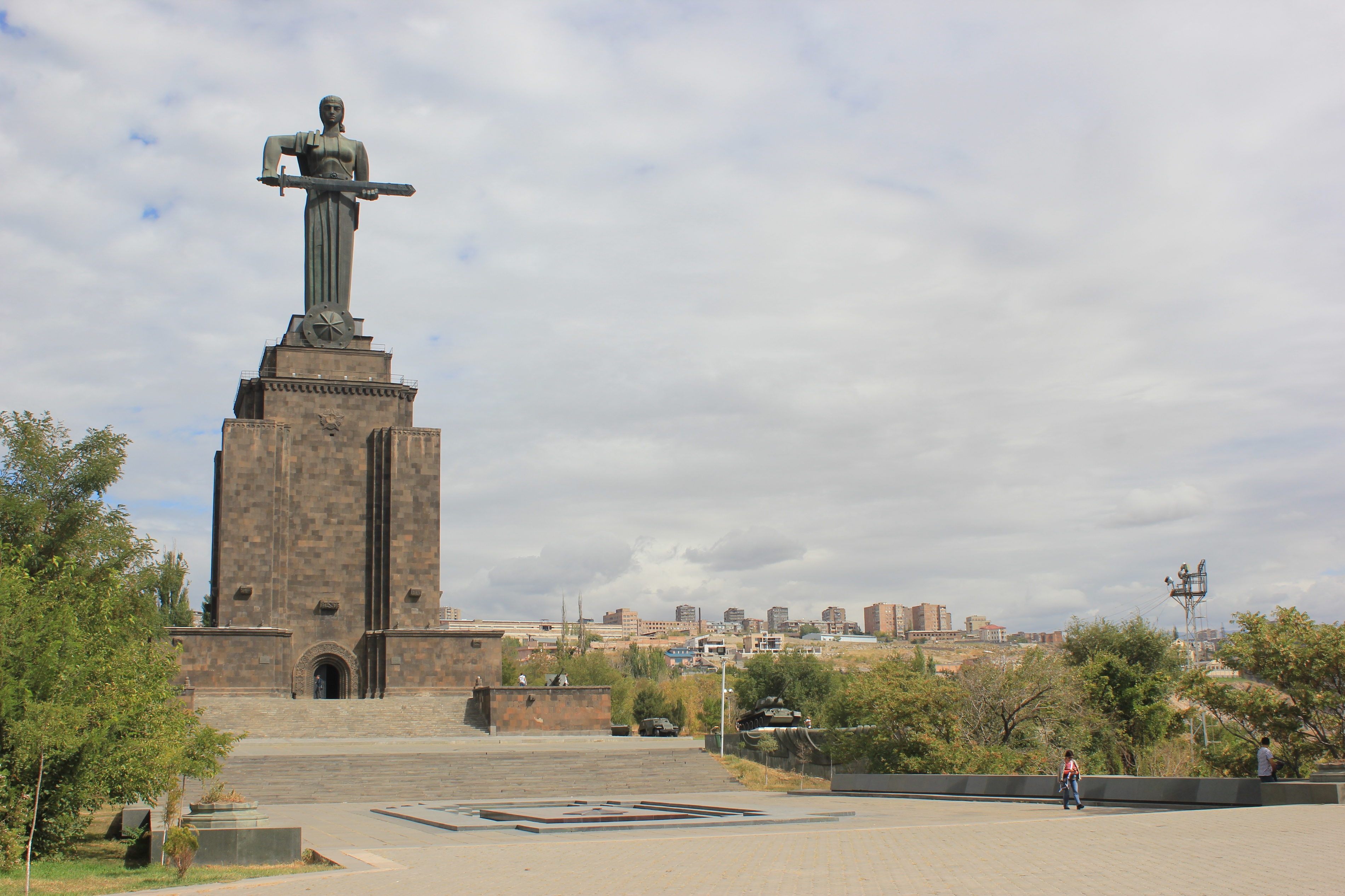 "Mother Armenia" monument in Yerevan.